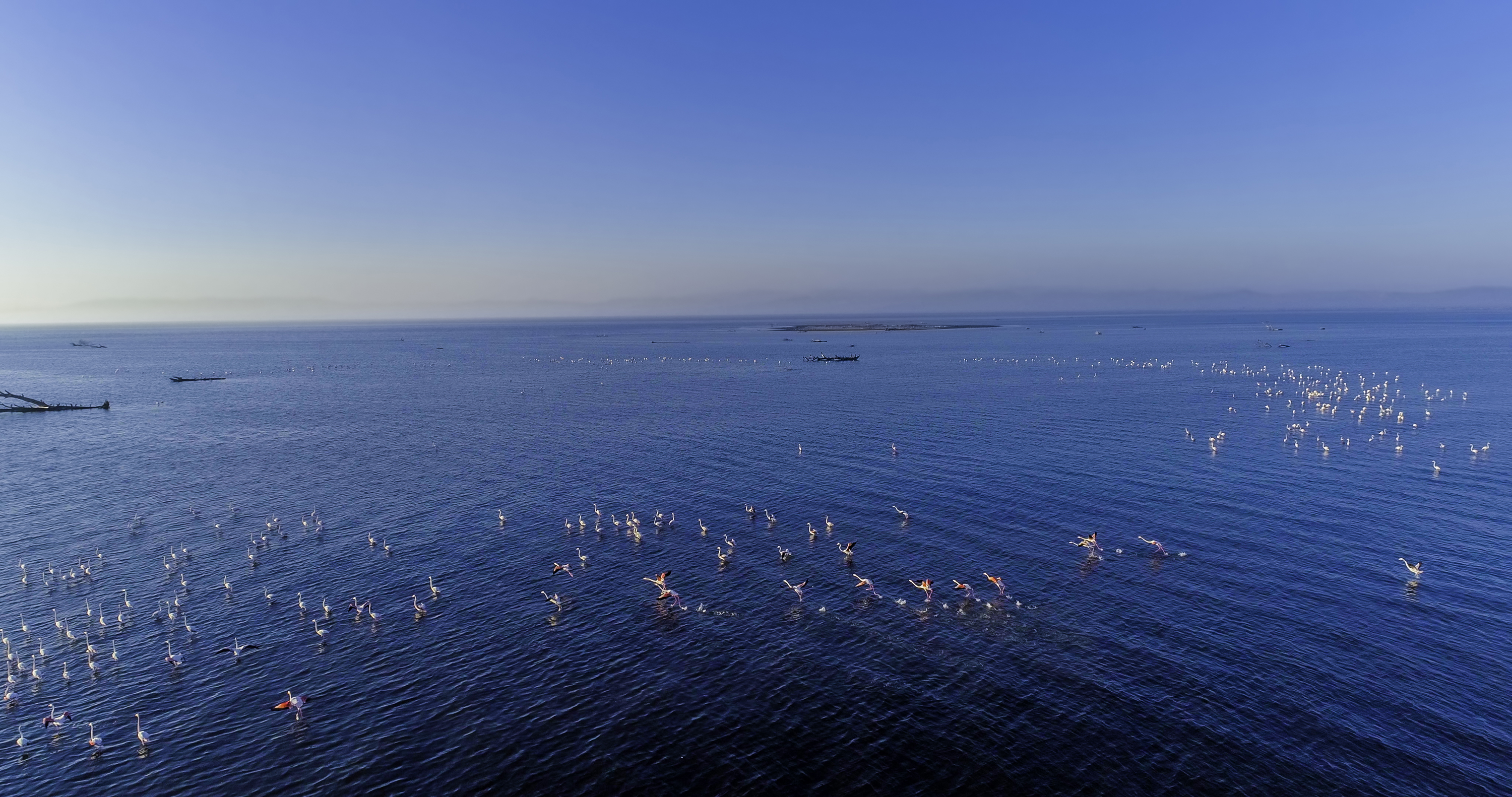 The pink flamingos of Delta Evros This is a photography of Natura 2000 protected area with ID GR1110006